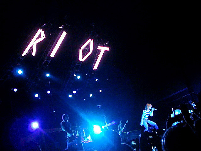 Paramore MN State Fair August 2008